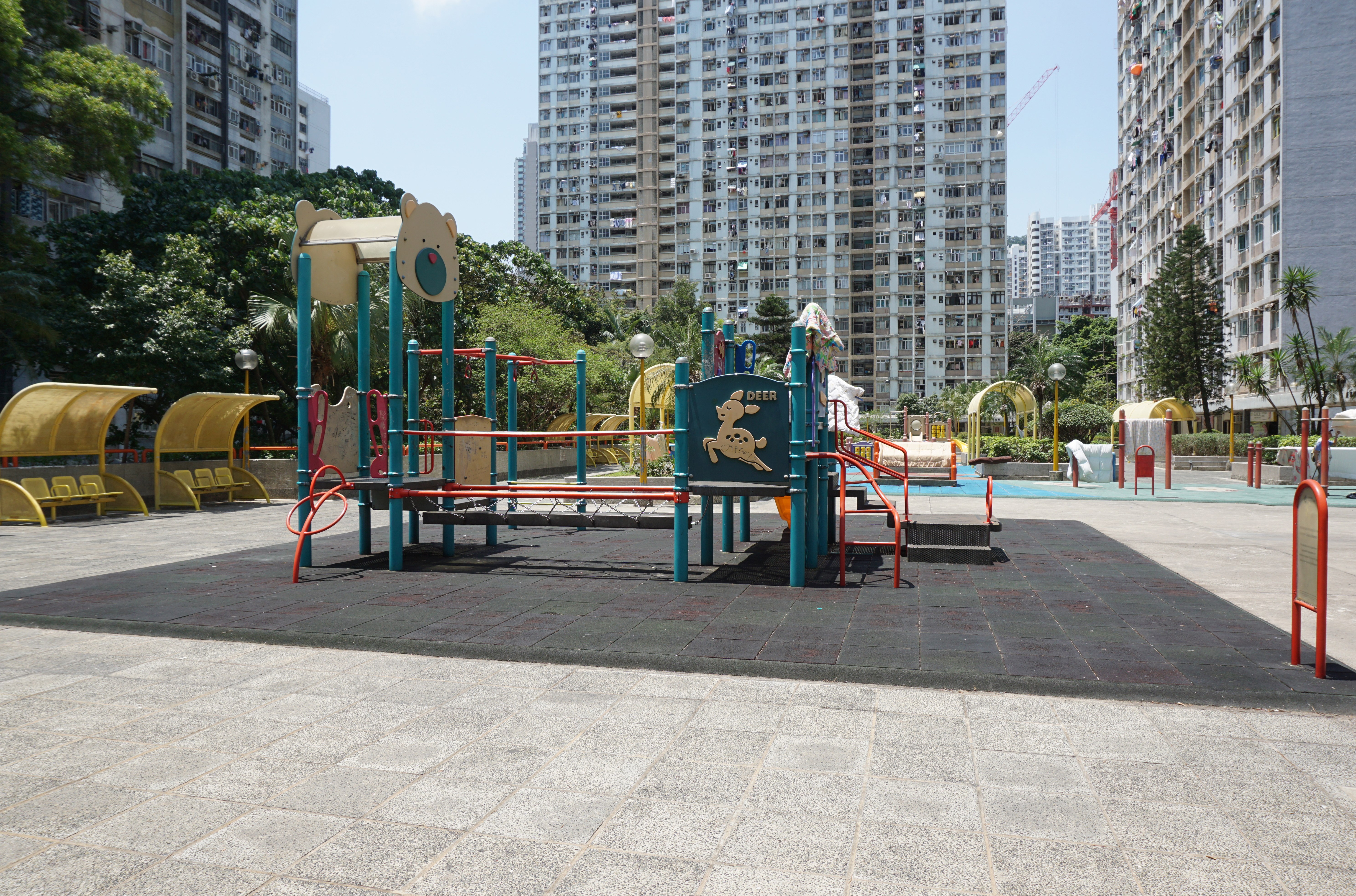 Lei Cheng Uk Estate in Cheung Sha Wan, Hong Kong.